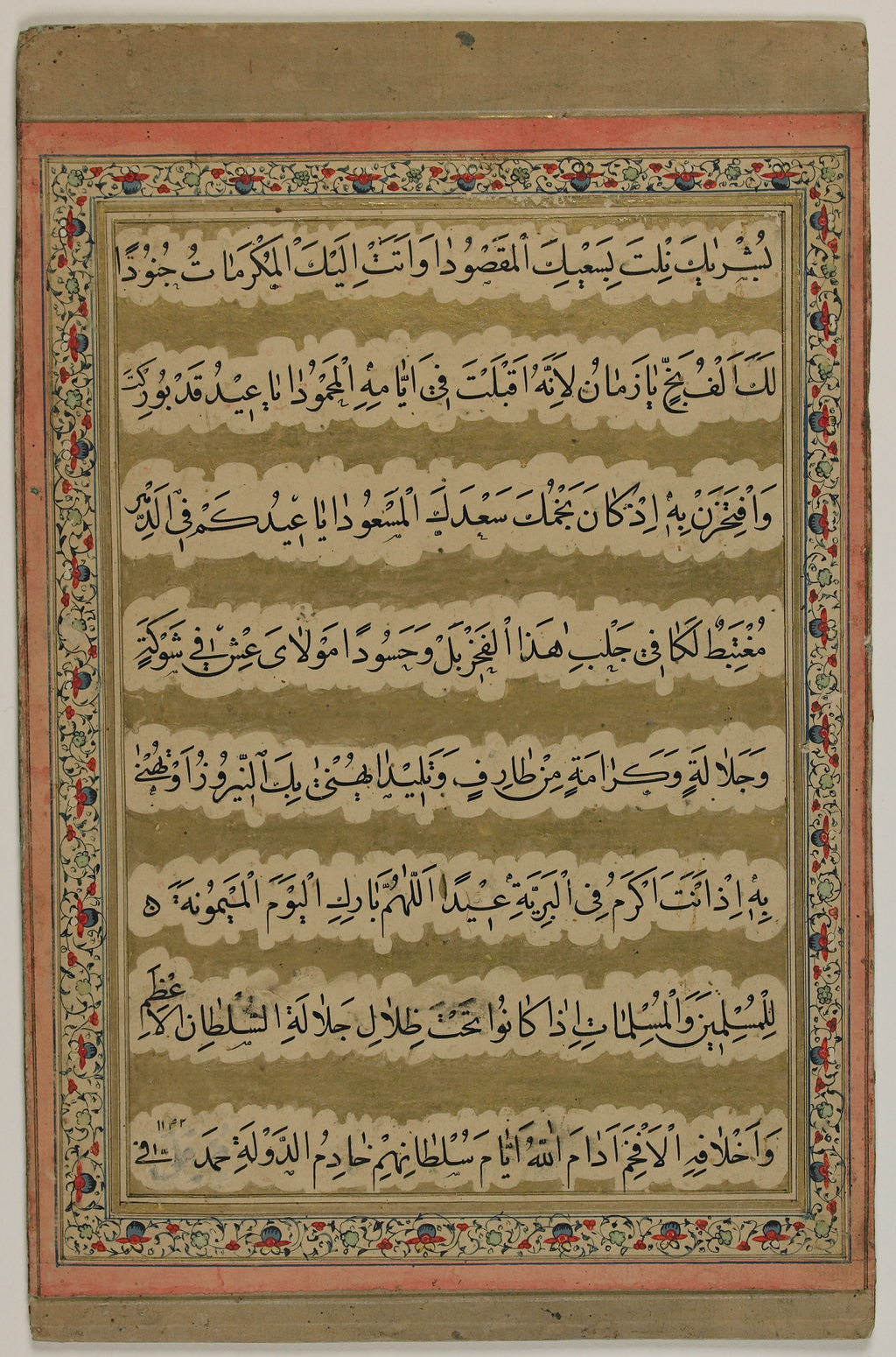 This calligraphic fragment provides Arabic blessings to a ruler on the occasion of Eid (also seen as 'Id). A number of the patron's epithets and titles are included in the text, which is executed in black Naskh script on a beige paper. The words are fully vocalized in black and are framed by cloud bands on a gold background. The text panel is framed by a border decorated with red, blue, and green flower and vine motifs and is pasted to a larger salmon-orange colored piece of paper backed by cardboard. In the lower-left corner, the calligrapher, (Muhammad) 'Ali, has signed his work and dated it 1142 AH (1729–30). It appears that the original calligrapher's name, which included the name 'Ali, was erased purposefully. It is possible, therefore, that the date constitutes a later correction as well. Text panels such as this one, providing various Arabic-language prayers in Naskh script, were made by the famous Naskh-revival Persian calligraphers Mirza Ahmad Nayrizi (died 1152 AH/1739) and his followers. For this reason, it is most likely that this piece was executed by a Persian calligrapher active during the 18th century. Arabic calligraphy; Arabic manuscripts; Holidays; Illuminations; Islamic calligraphy; Islamic manuscripts; ʻĪd al-Aḍḥā